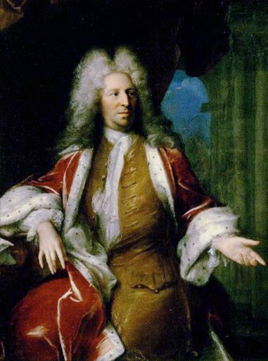 NT.d.y